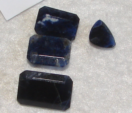 Sodalite cut from Brazil. Gem cutting by Afonso Marques.